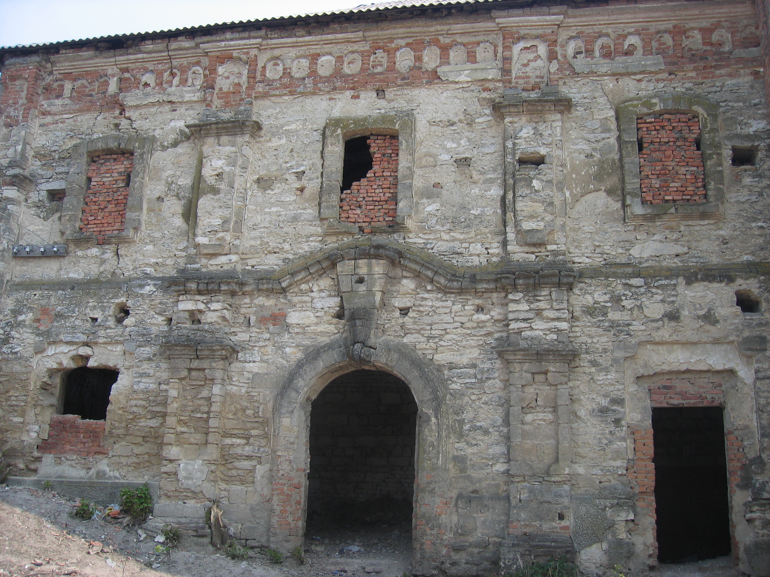 Ruins of Chechelnyk synagogue